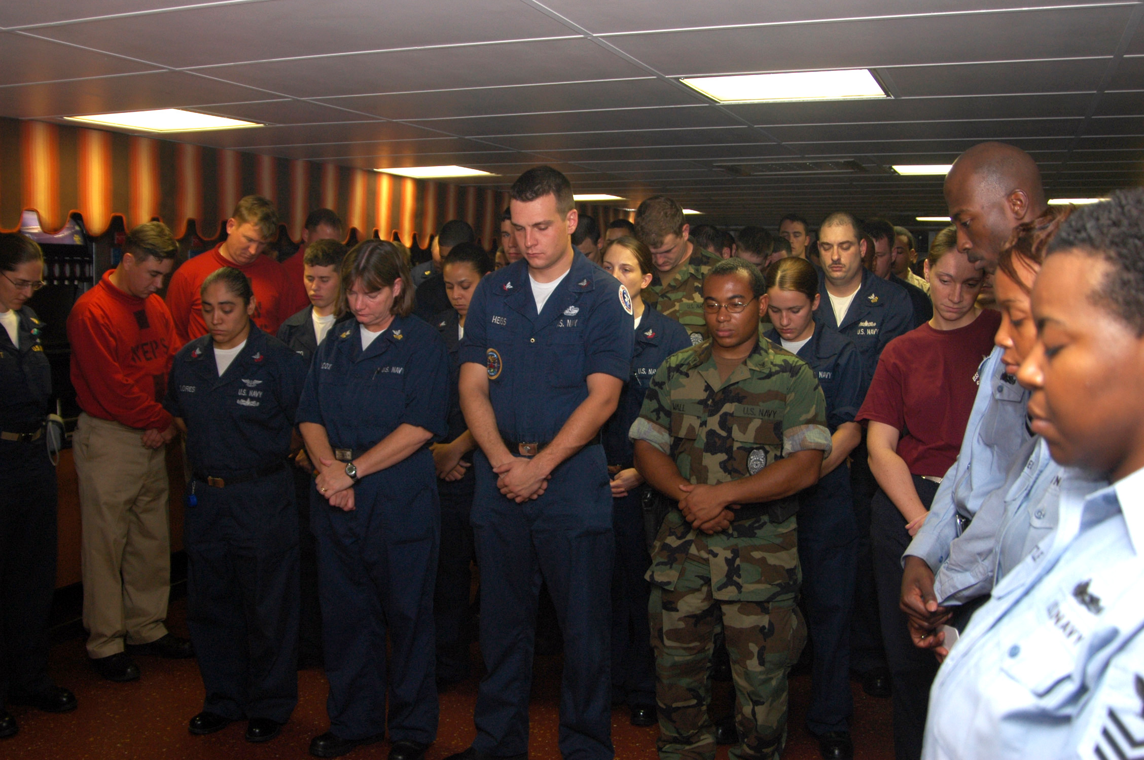 PERSIAN GULF (Sept. 11, 2007) - Sailors aboard amphibious assault ship USS Kearsarge (LHD 3) take a moment of silence to remember the victims of the Sept. 11 terrorist attacks. Kearsarge is deployed in support of maritime operations, complementing the counterterrorism and security efforts of nation’s in the region. U.S. Navy photo by Mass Communication Specialist Seaman Ash Severe (RELEASED)